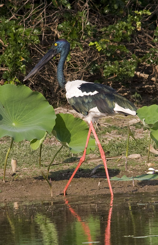 Ephippiorhynchus asiaticus, Mary River, Queensland.